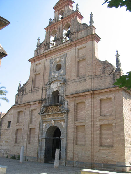 Nuestra Señora de la Fuensanta Sanctuary, in Córdoba (Spain).